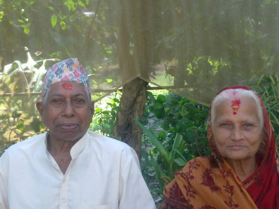 Literary scholar Aatmaram Ojha is his wife.